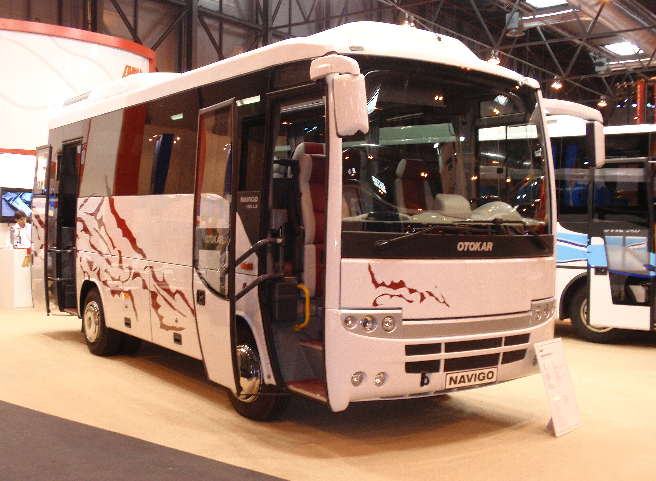 Otokar Navigo at the 2008 FIAA (International Bus and Coach Fair) in Madrid